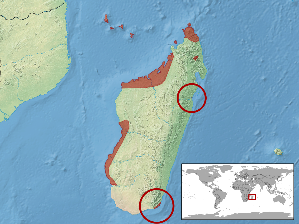 geographic distribution of Geckolepis maculata (Native: Comoros; Madagascar; Mayotte)